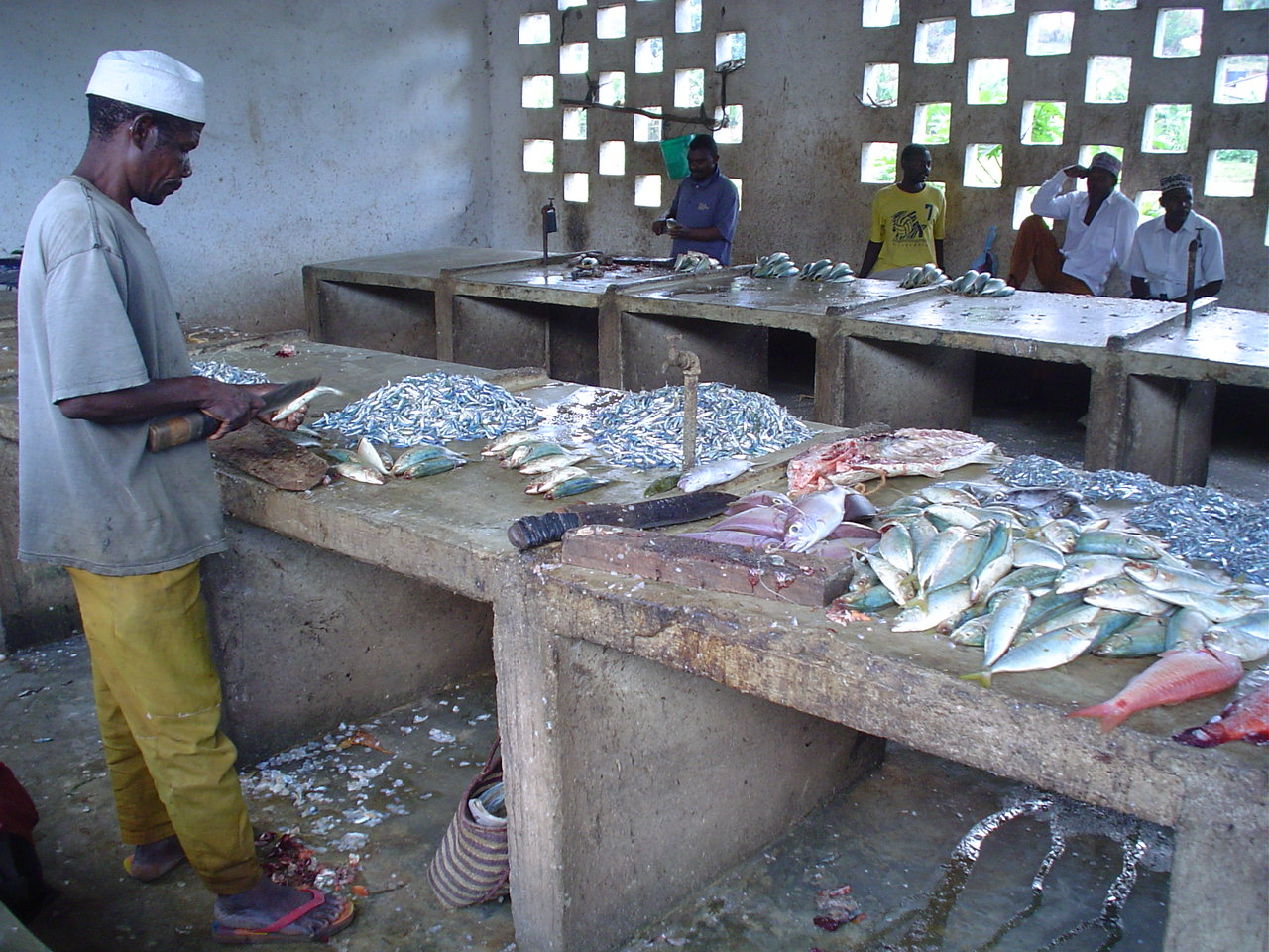 Fish market in Mkoani, Pemba Island, Tanzania